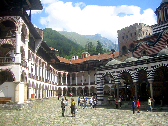 2=View of the Rila Monastery. On the right, includes the Church of the Nativity of the Virgin (1834-1846) where the remains sacred Saint John of Rila. Destra of the Church: The Tower of Chrel'o (1335). In the background, views of the Rila Mountains.